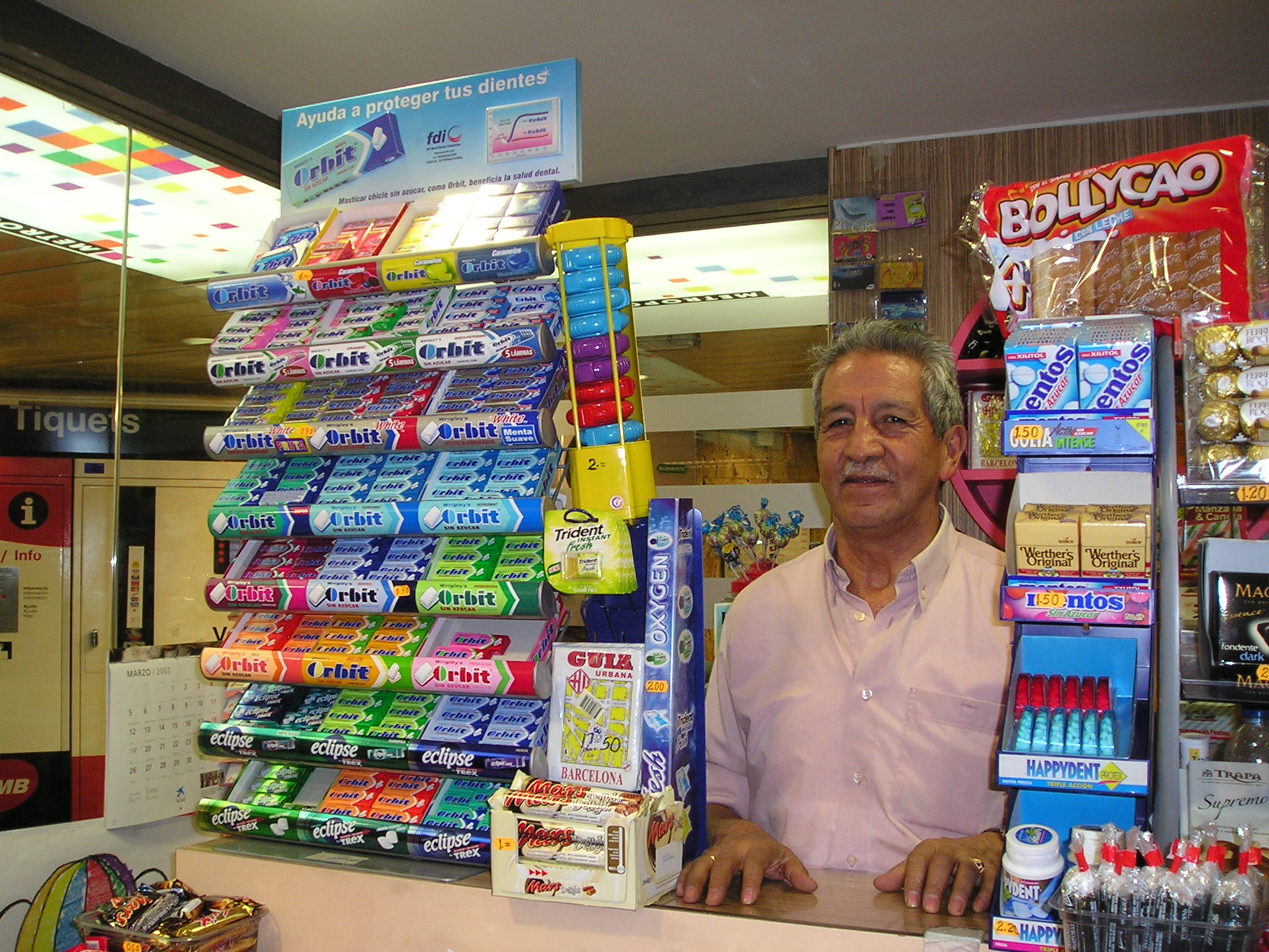 Orbit Gum stand in Barcelona, Spain